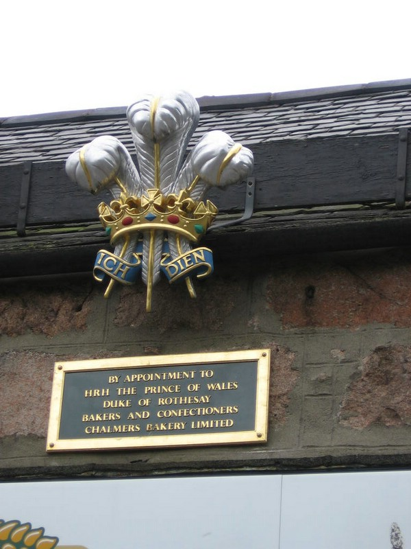 The Prince of Wales Royal Warrant